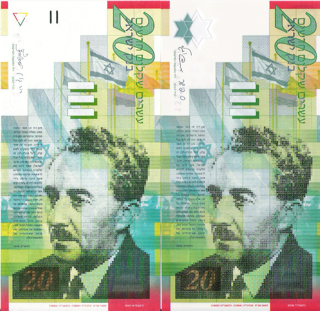 Obverse side of a 20 NIS bill, paper and polypropylene.